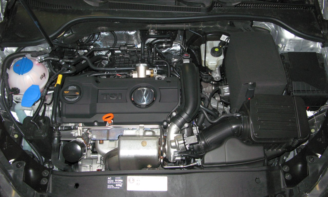 Volkswagen 1.4 TSI 90 kW turbocharged petrol engine in Golf Mk6